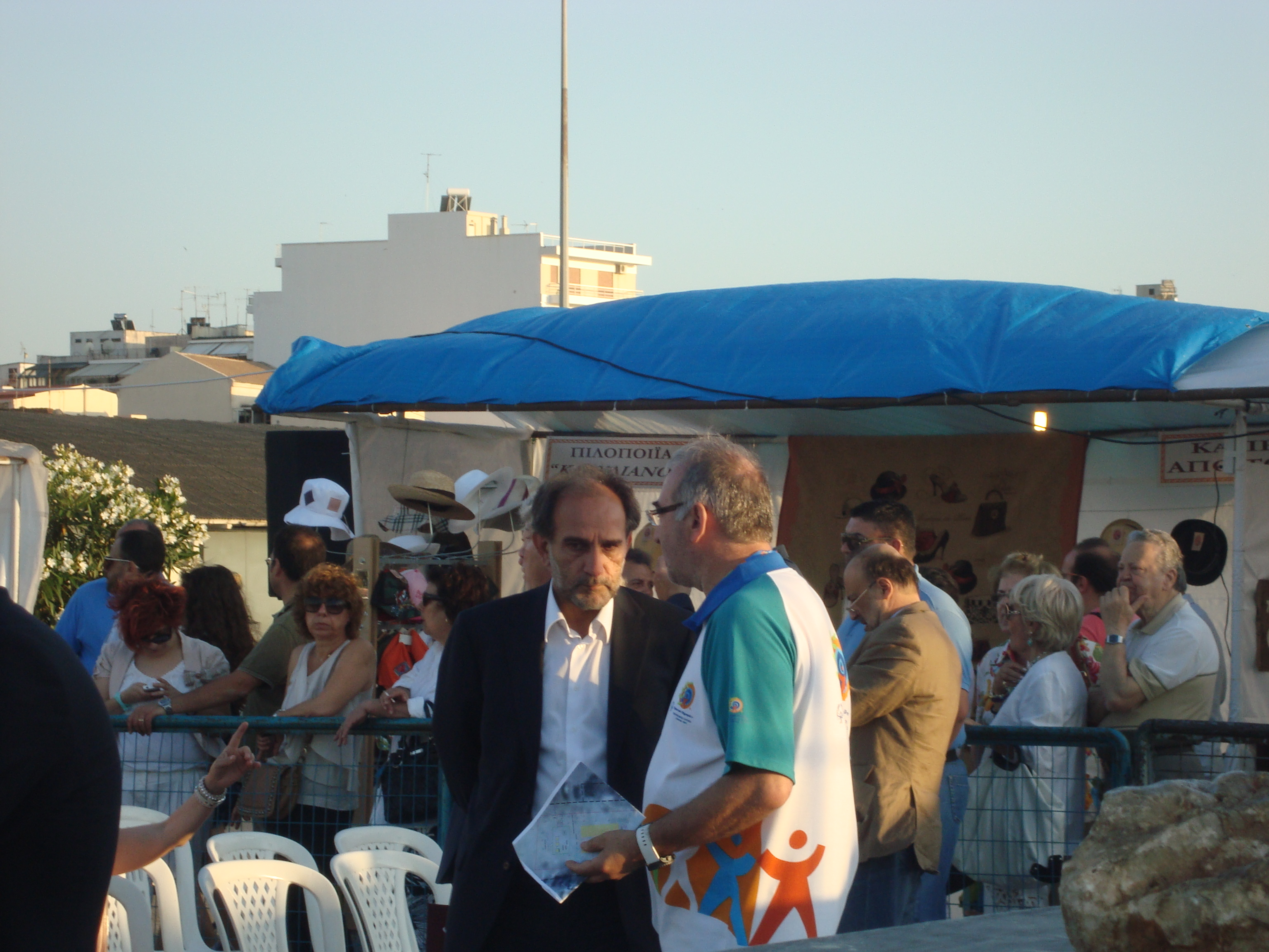 Apostolos Katsifaras, Greek politican